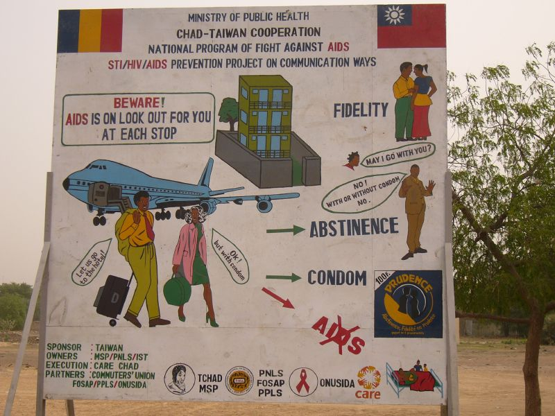 Prevention of AIDS in Chad (Africa)